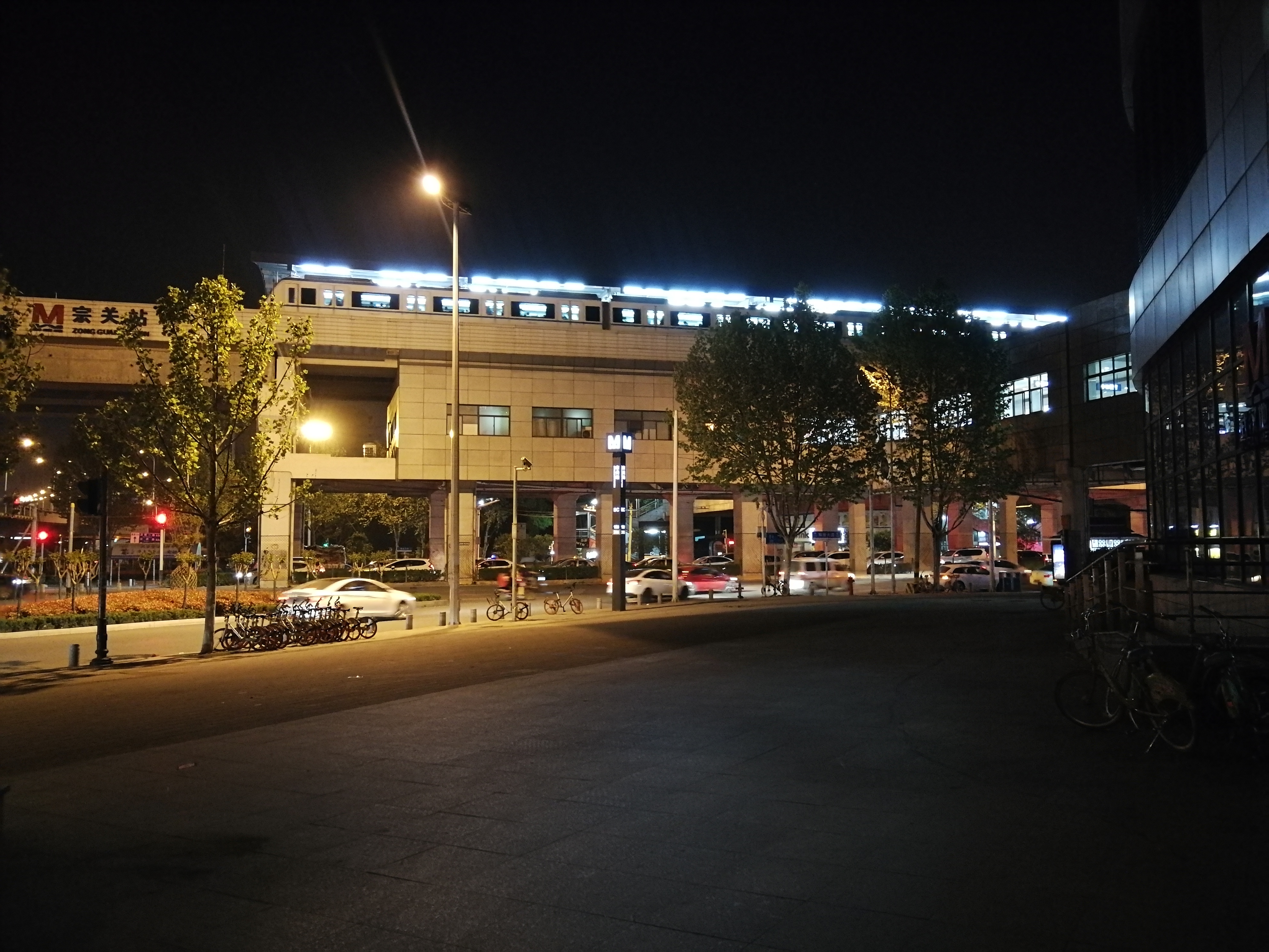 Zongguan Station Building of Wuhan Metro Line 1(taken on 20180403)